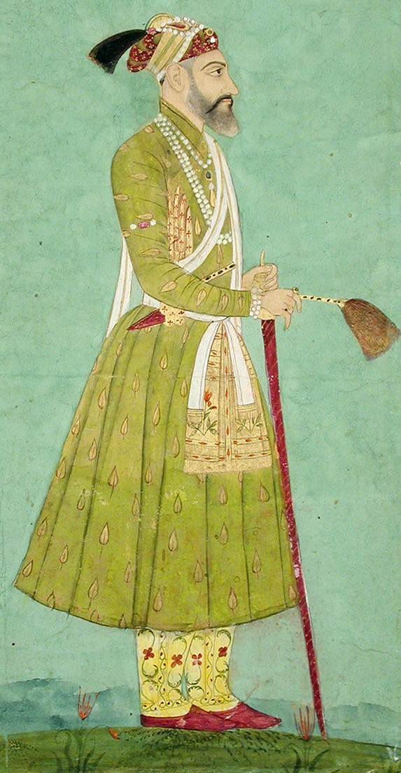 Creation Date: ca. 1680 Display Dimensions: 7 13/32 in. x 3 3/4 in. (18.8 cm x 9.5 cm) Credit Line: Edwin Binney 3rd Collection Accession Number: 1990.492 Collection: The San Diego Museum of Art